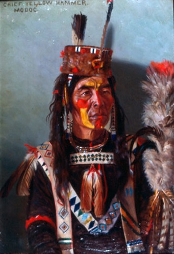 Painting of Chief Yellow Hammer, a Modoc Indian painted by E.A Burbank 1901.